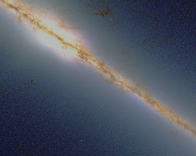 Same as With_bh.jpeg, but without the black hole (for comparison)